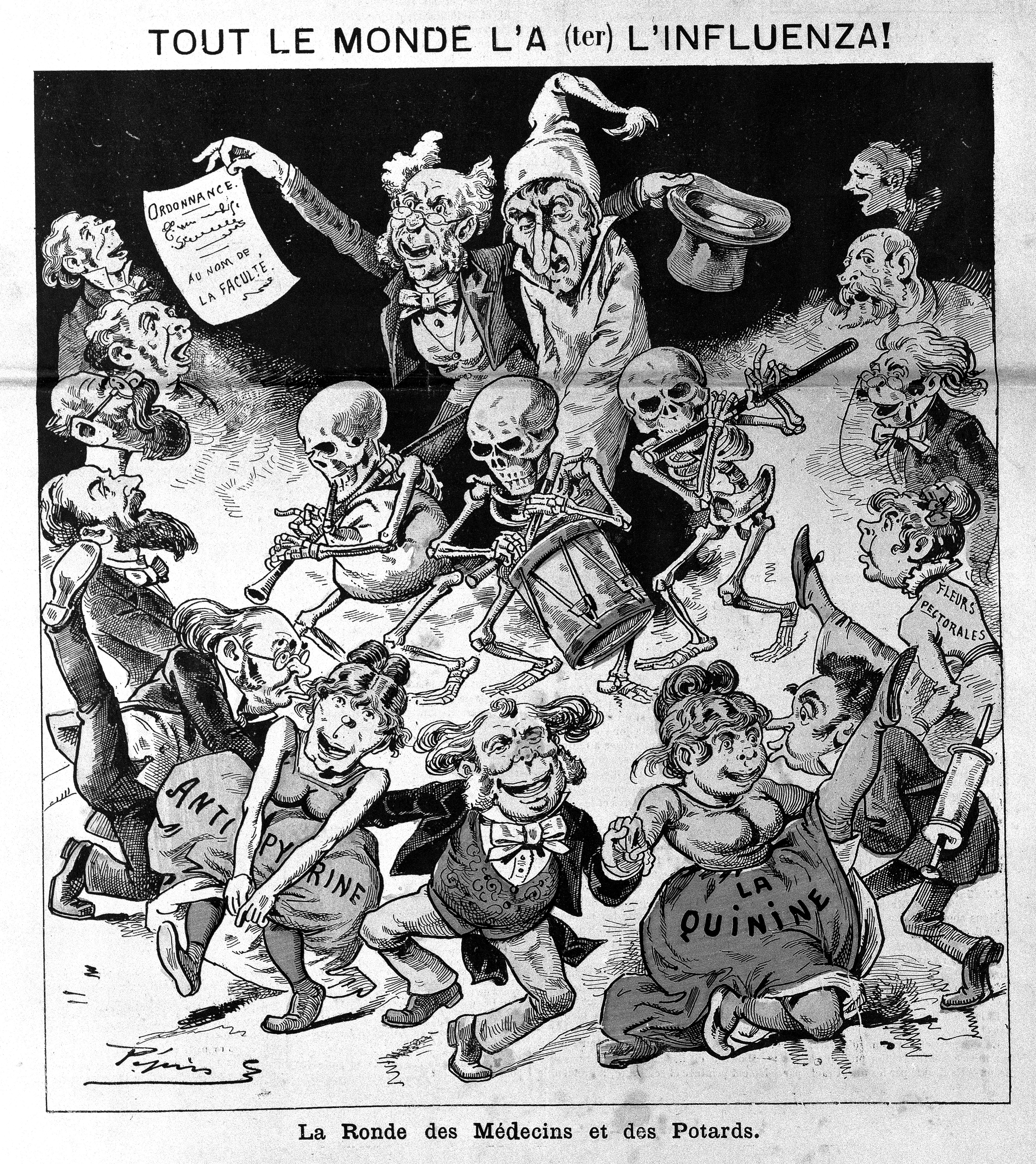 A man with influenza, taken in hand by a doctor, surrounded by dancing politicians. Wood engraving by Pépin (E. Guillaumin), 1889. Iconographic Collections Keywords: Pépin